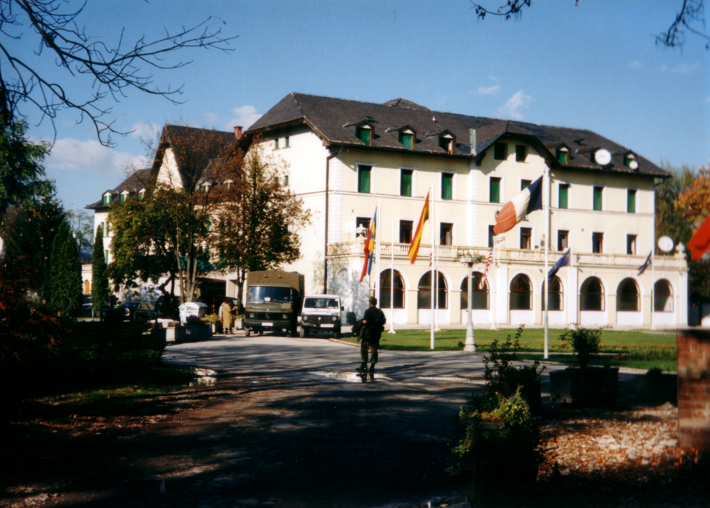 SFOR headquarters in Sarajevo, Bosnia and Herzegovina in 1997